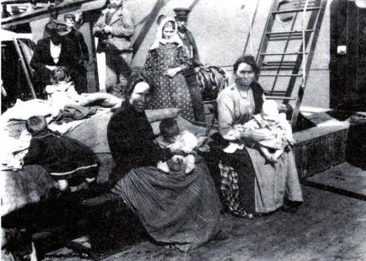 Portuguese immigrants to Brazil in the early 20th century